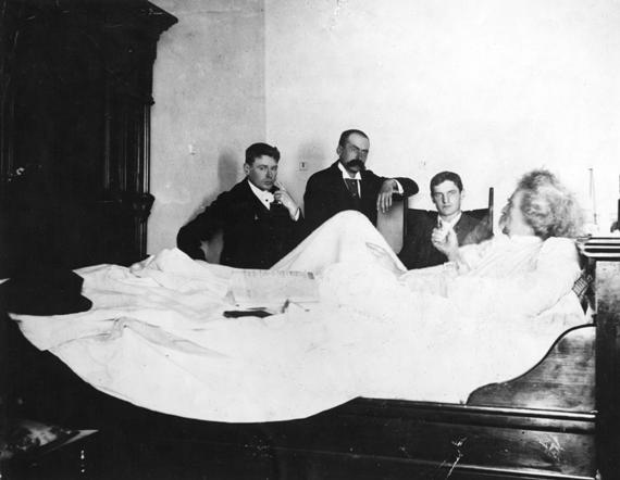 Mark Twain being interviewed by Ernest John Harrison and other reporters from his hotel bed in Vancouver on August 18, 1895. PRIVATE RECORDS #: Add. MSS. 54 PART OF FONDS: Major Matthews collection, PART OF SERIES: Collected photographs PHYSICAL DESCRIPTION: 1 photograph : silver gelatin print ; 19 x 24 cm SCOPE AND CONTENT: Photograph shows Sam Robb, A.E. Goodman and Ernest John Harrison (sitting first on the right) GENERAL NOTE: J.S. Matthews' notes with print in Archives PHYSICAL CONDITION: Image fading ALTERNATE PHOTO #: Port N1122 PHOTOGRAPH GEOGRAPHIC LOCATION: Vancouver (B.C.)